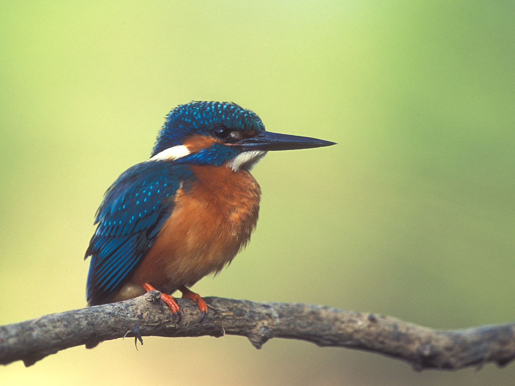 Alcedo atthis